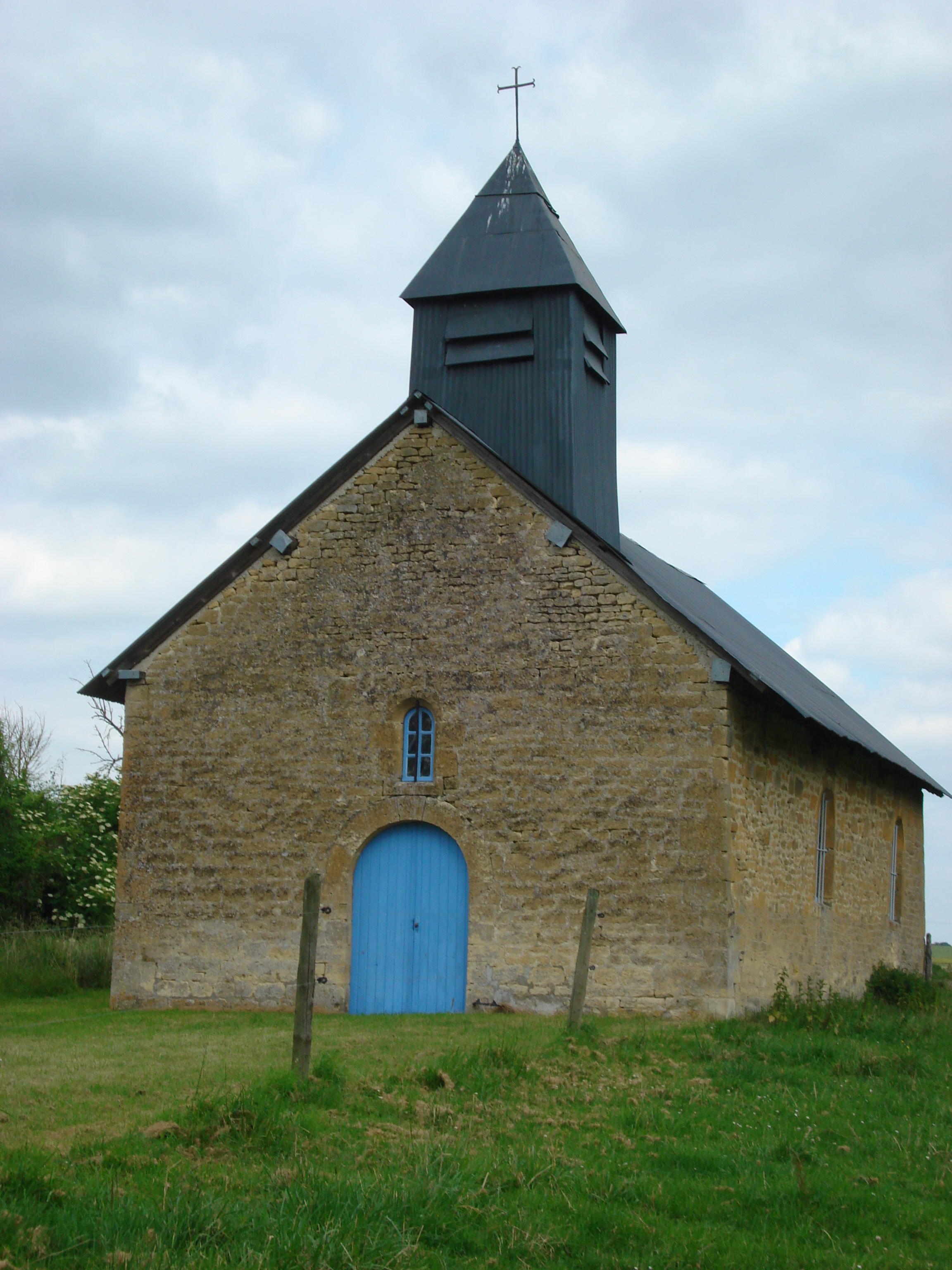 Church of Mont-de-Jeux (St.Lambert-et-Mont-deJeux).